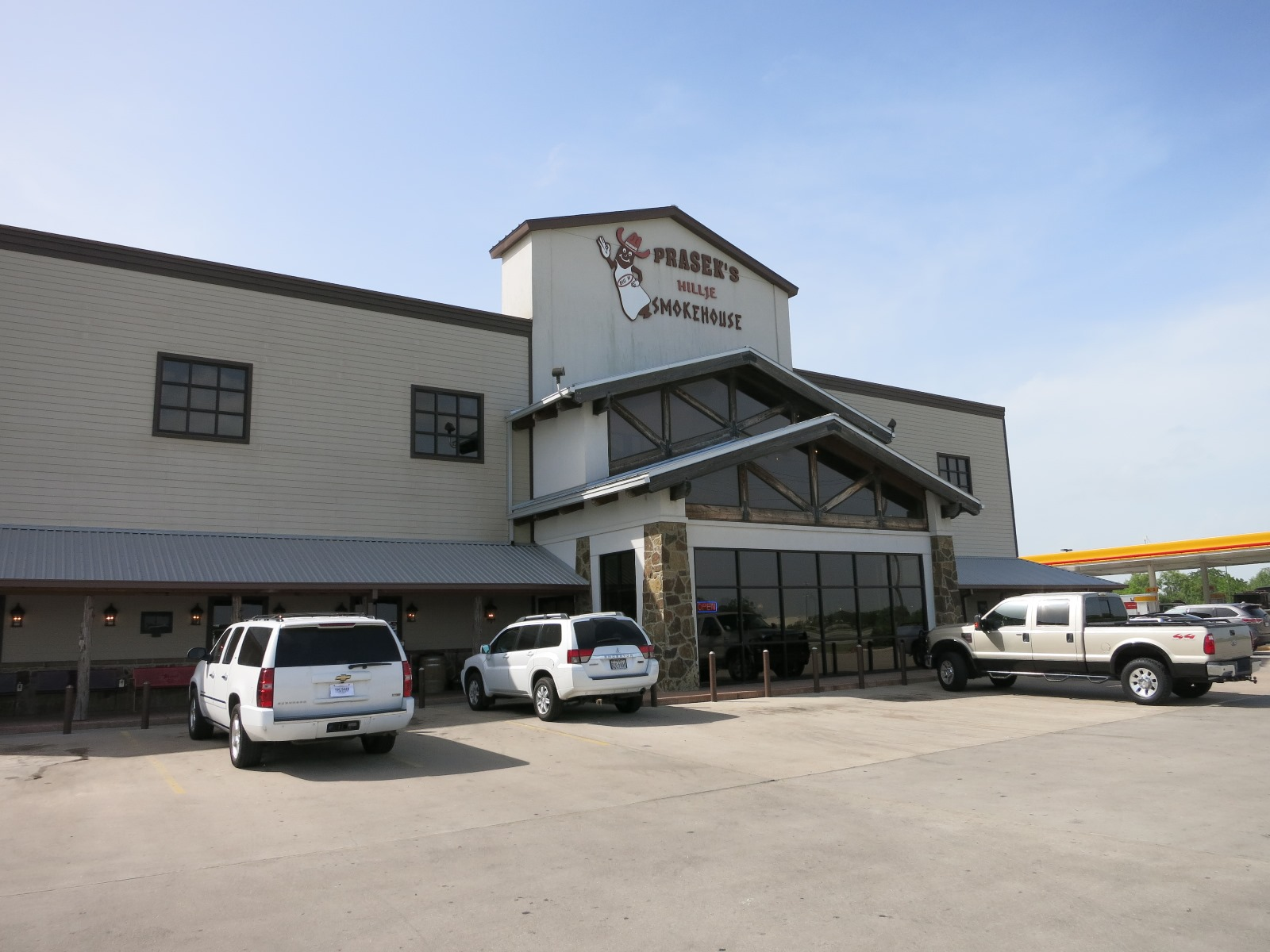 Photo shows Prasek's Smokehouse in Hillje, Texas. The location is on US 59 and County Road 357 about 1 mile northeast of the FM 441 exit. This is a popular stop on US 59.